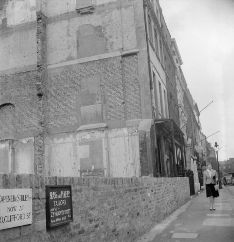 Savile Row- Tailoring at Henry Poole and Co., London, England, UK, 1944 A woman walks down Savile Row, past the space left where houses once stood, before they were destroyed in an air raid. The site is now home to an emergency water tank, hidden behind the wall. Clearly visible are two boards advising customers of the new addresses of 'Capener and Sibley Ltd.', (now at new premises in Clifford Street), and 'Brass and Pike Tailors Ltd.' (now at 22 Hanover Street).